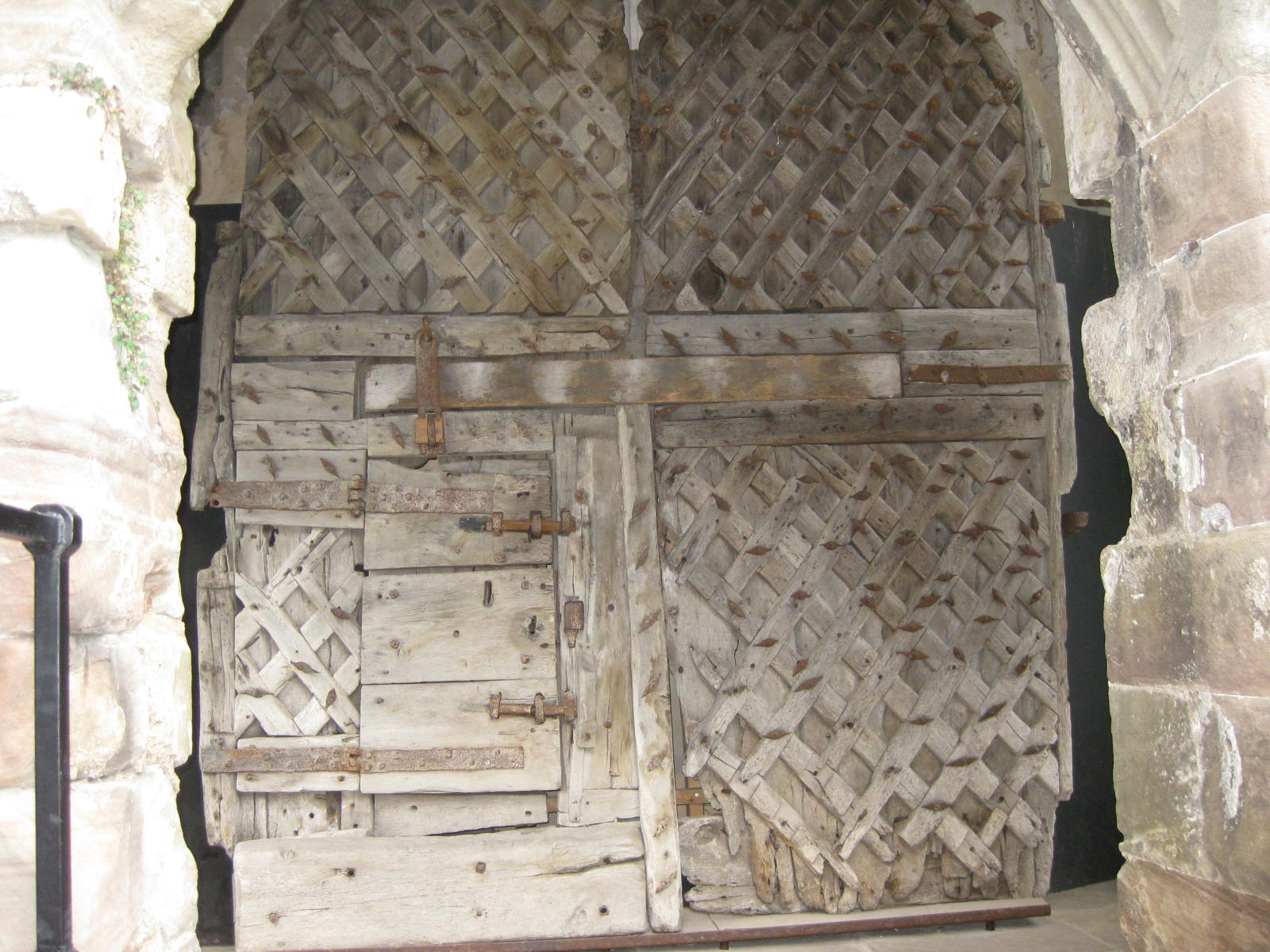 Chepstow Castle Oak gate to castle dated by dendrochronology to 1189-90AD